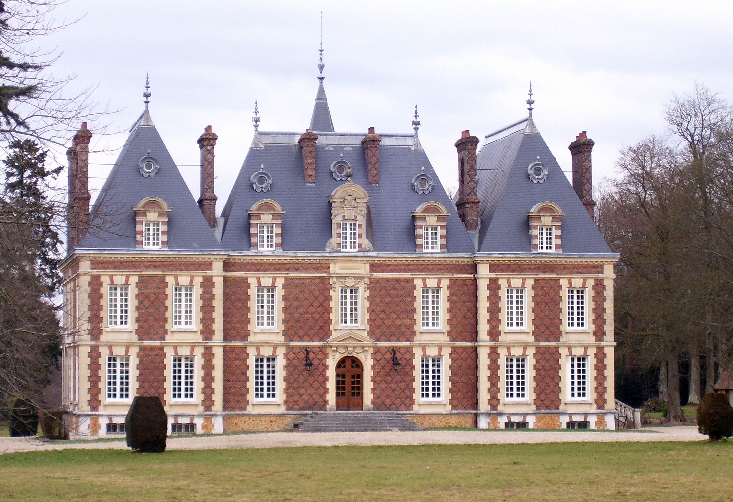 La Houssaye in Brétigny, departement Eure, Haute-Normandie, France, was built in the 17th century.